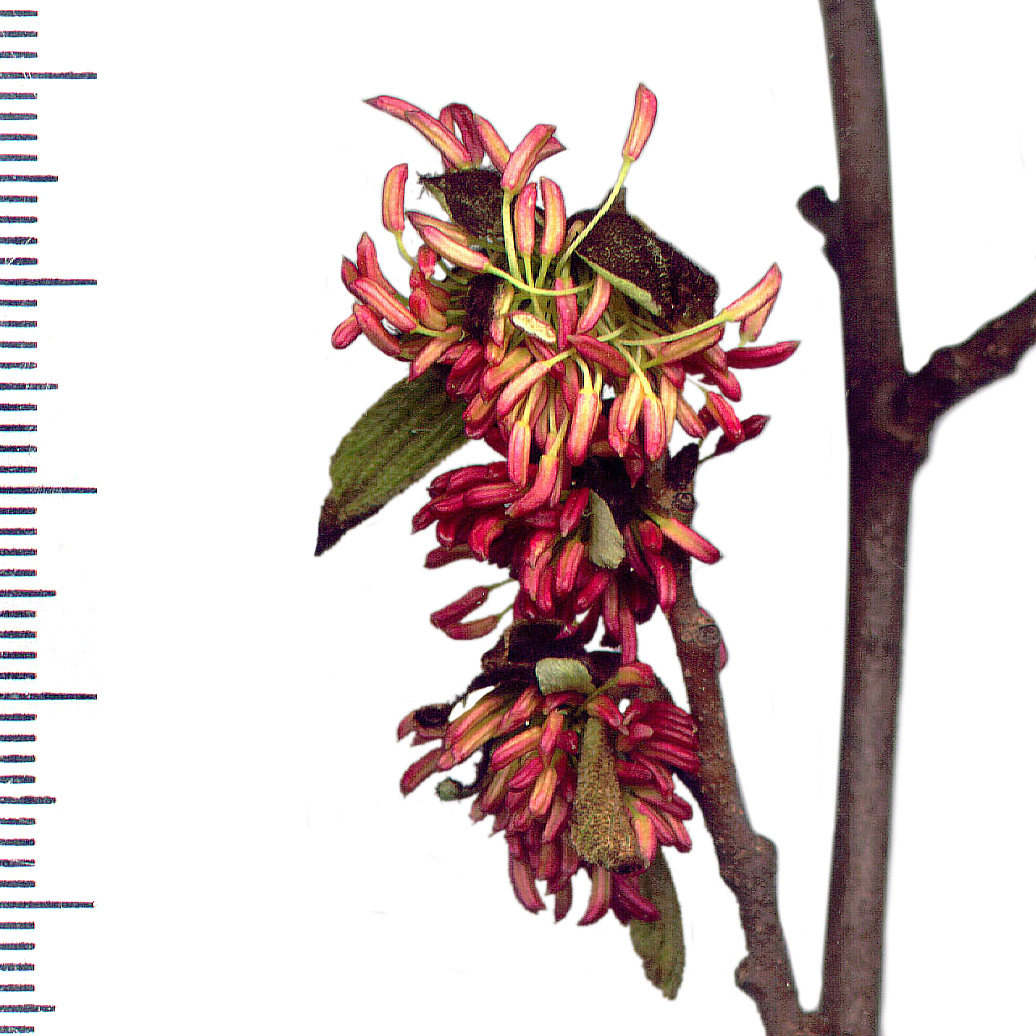 Flowers of Parrotia